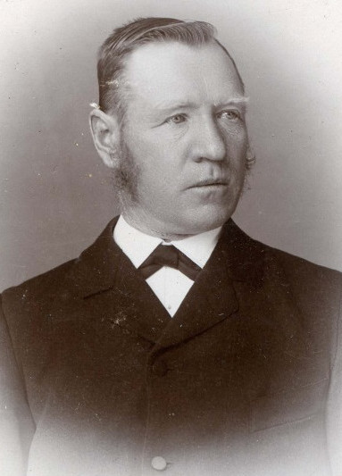 Johan Persson i Hult